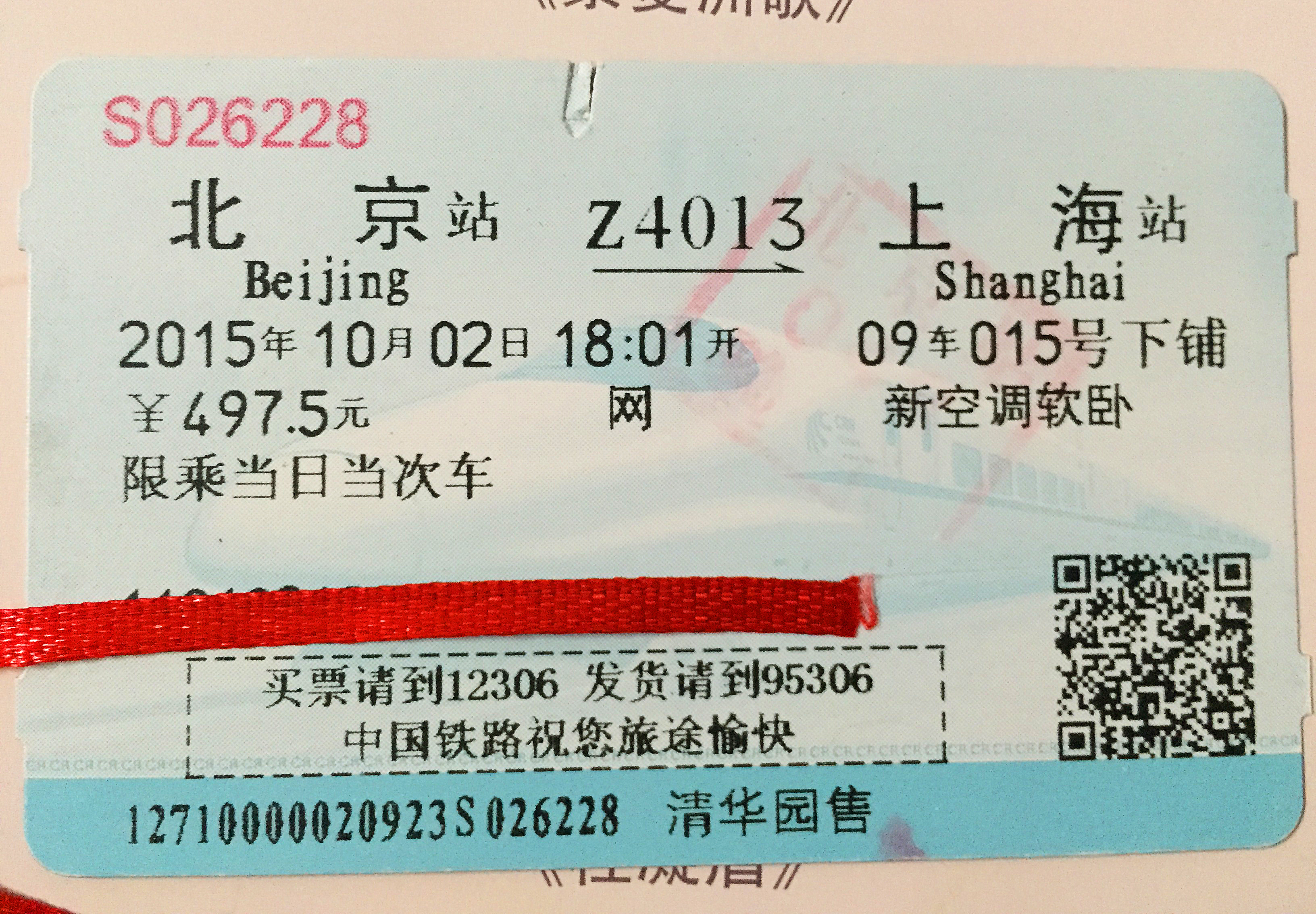 The ticket of Z4013, a temporary train from Beijing to Shanghai using BSP carriages. The slogan said "Buy tickets from 12306, send goods from 95306 - China Railways wish you a pleasant journey." The name and ID is blocked by a red ribbon (attached to the ticket of Chasing the Dream of Red Mansion, a concert at CNU today).